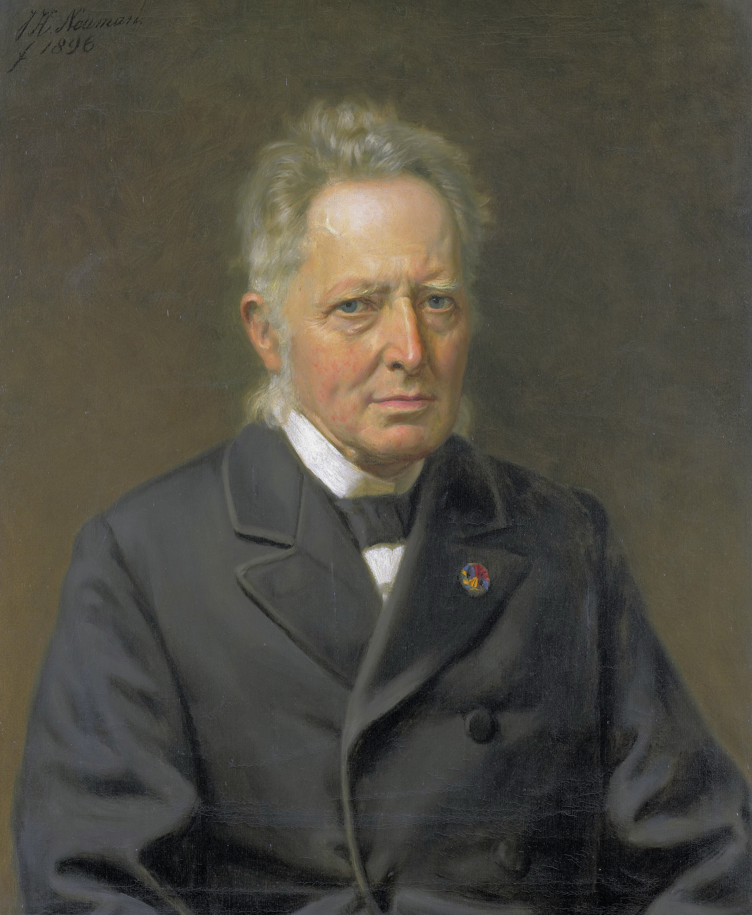 Jan Heemskerk Azn (1818-1897) oil on canvas 70.5 × 58 cm signed t.l.: J.H. Neuman / f 1896